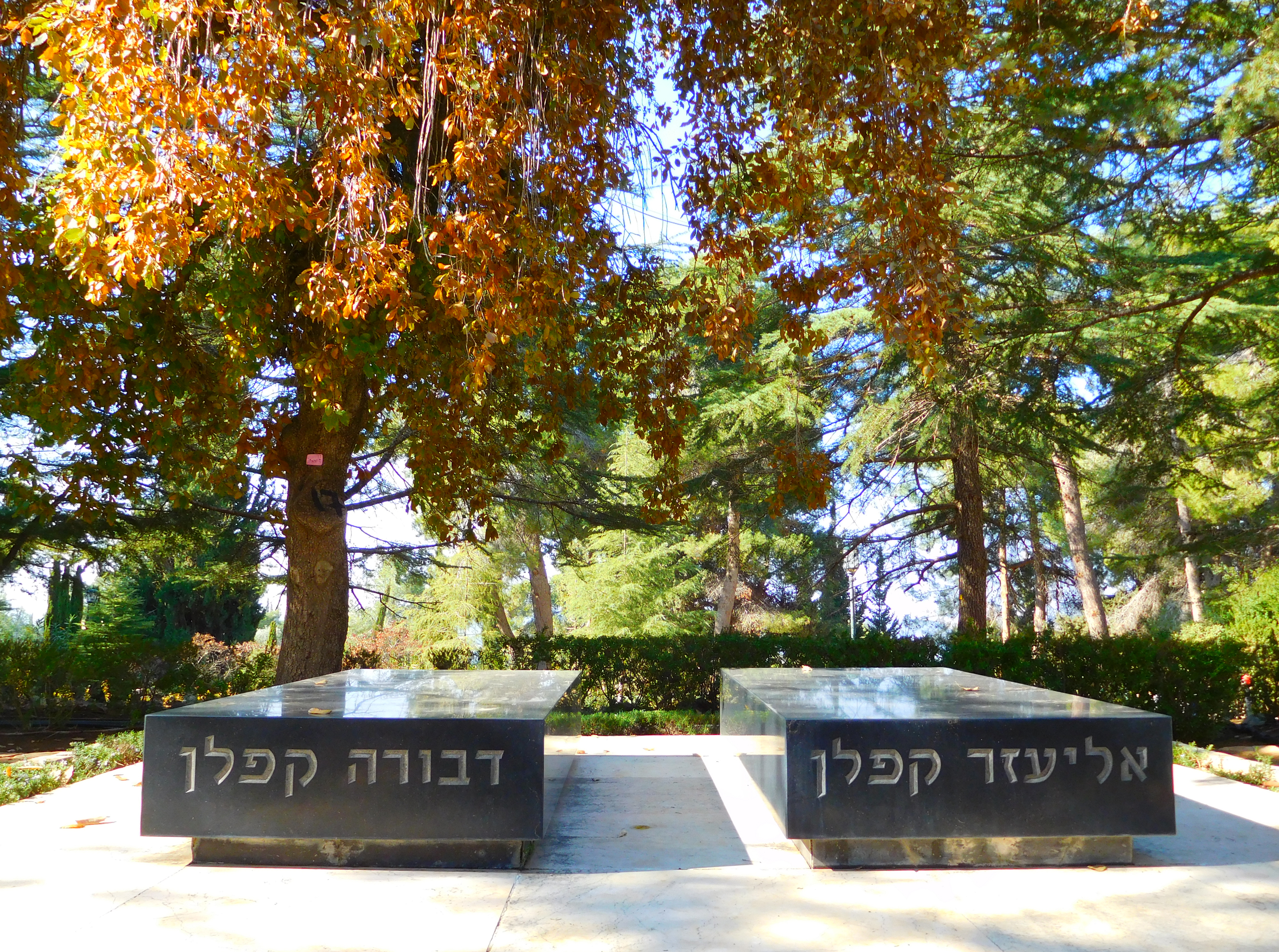 Eliezer Kaplan's grave